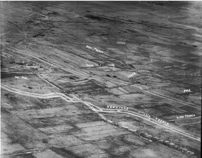 IWM caption : The Hindenburg Line. Photograph shows the trench system west of Wancourt in front of the British 5th Army as photographed by a FE 2B aircraft of No 11 Squadron Royal Flying Corps. The aircraft was equipped with a B Type aerial camera.